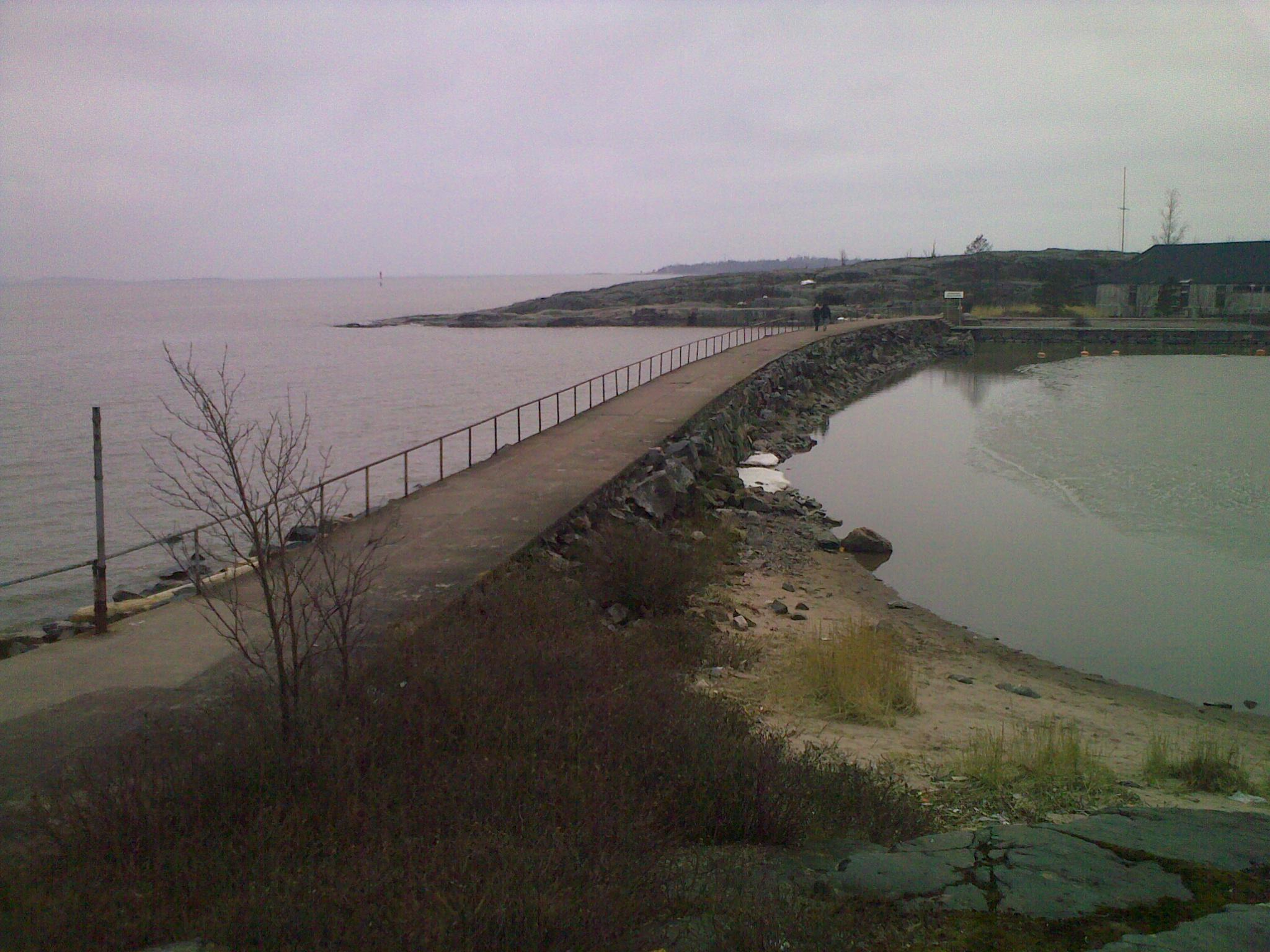 Breakwater between Uunisaari and Liuskasaari in Helsinki